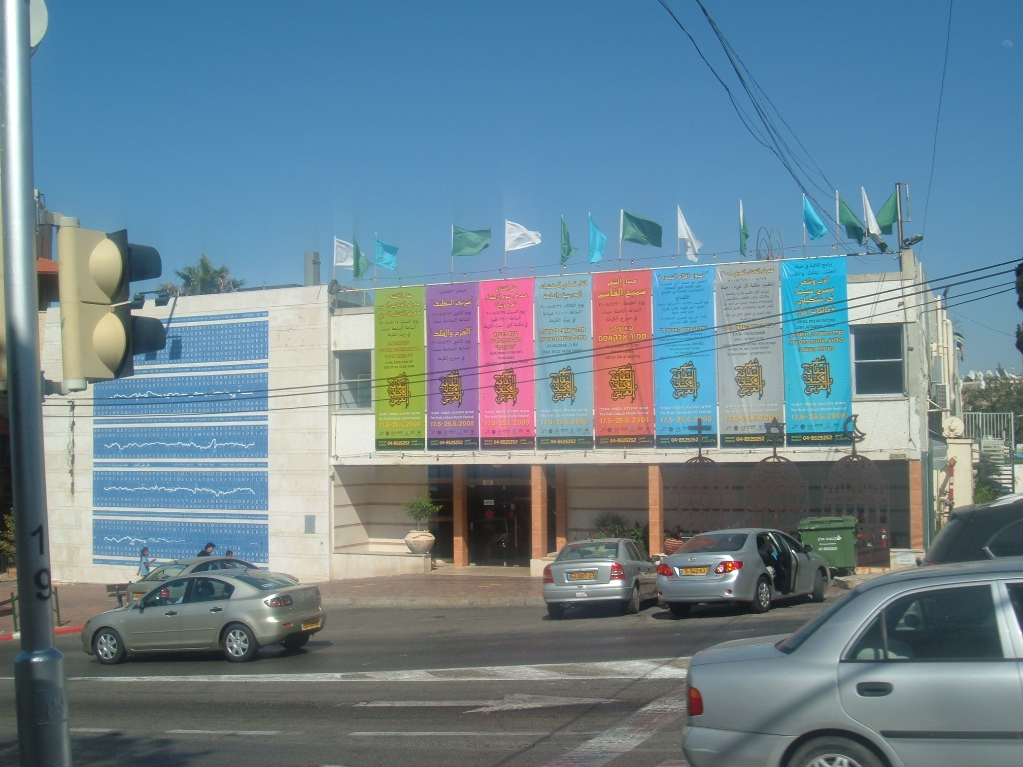 Beth Hagefen Theater and Cultural center in Haifa. - wall dedicated to peace with the tiled art work Borders are the scars of history, 1993, by Françoise Schein, with a poem by Michel Butor in hebrew, arab and french. Part of the international art work net "INSCRIRE to write the human rights". . תיאטרון בית הגפן בחיפה